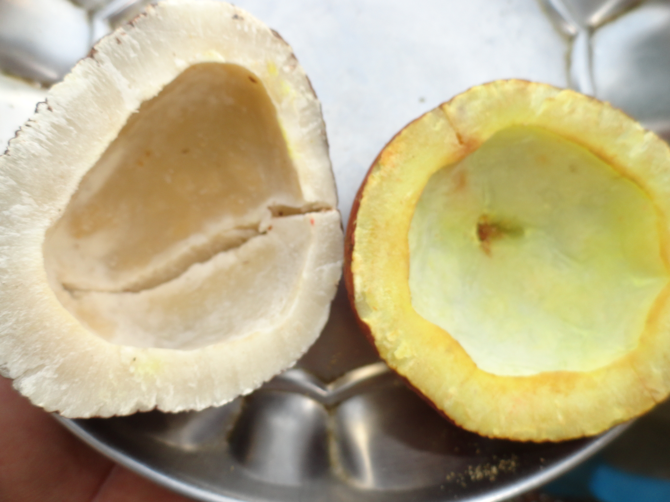 dry coconut. my own work